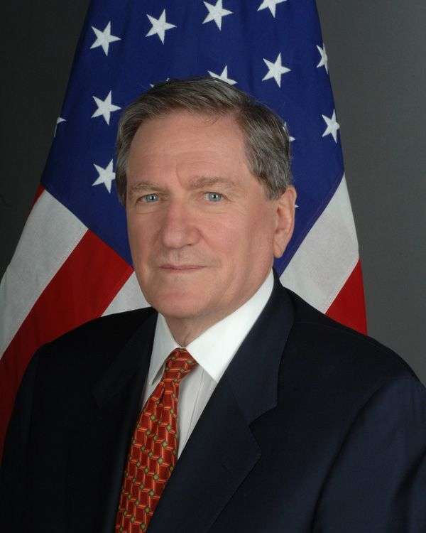 Richard C. Holbrooke, Special Representative for Afghanistan and Pakistan (01/26/2009 - 12/13/2010)